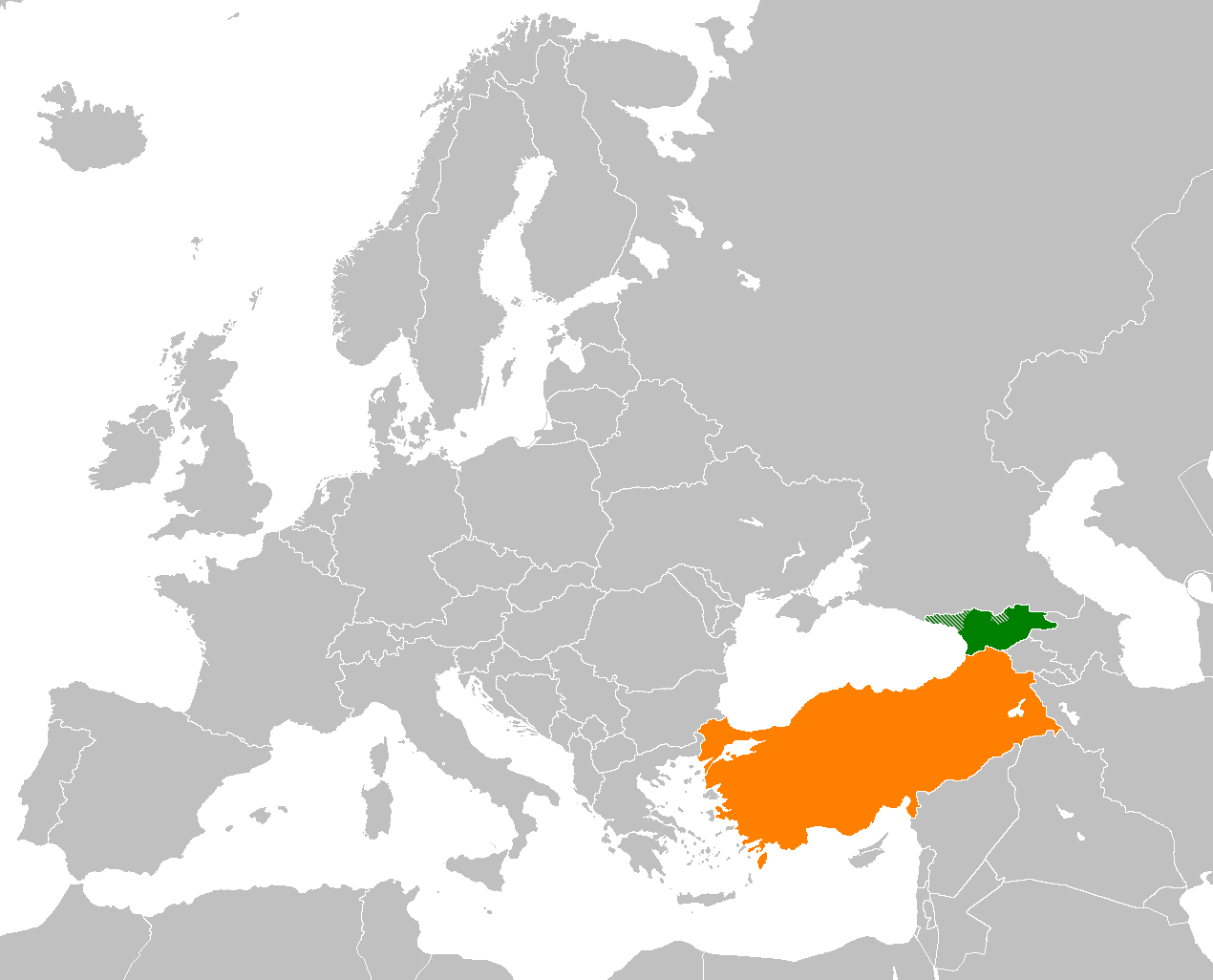 Location of Georgia and Turkey.